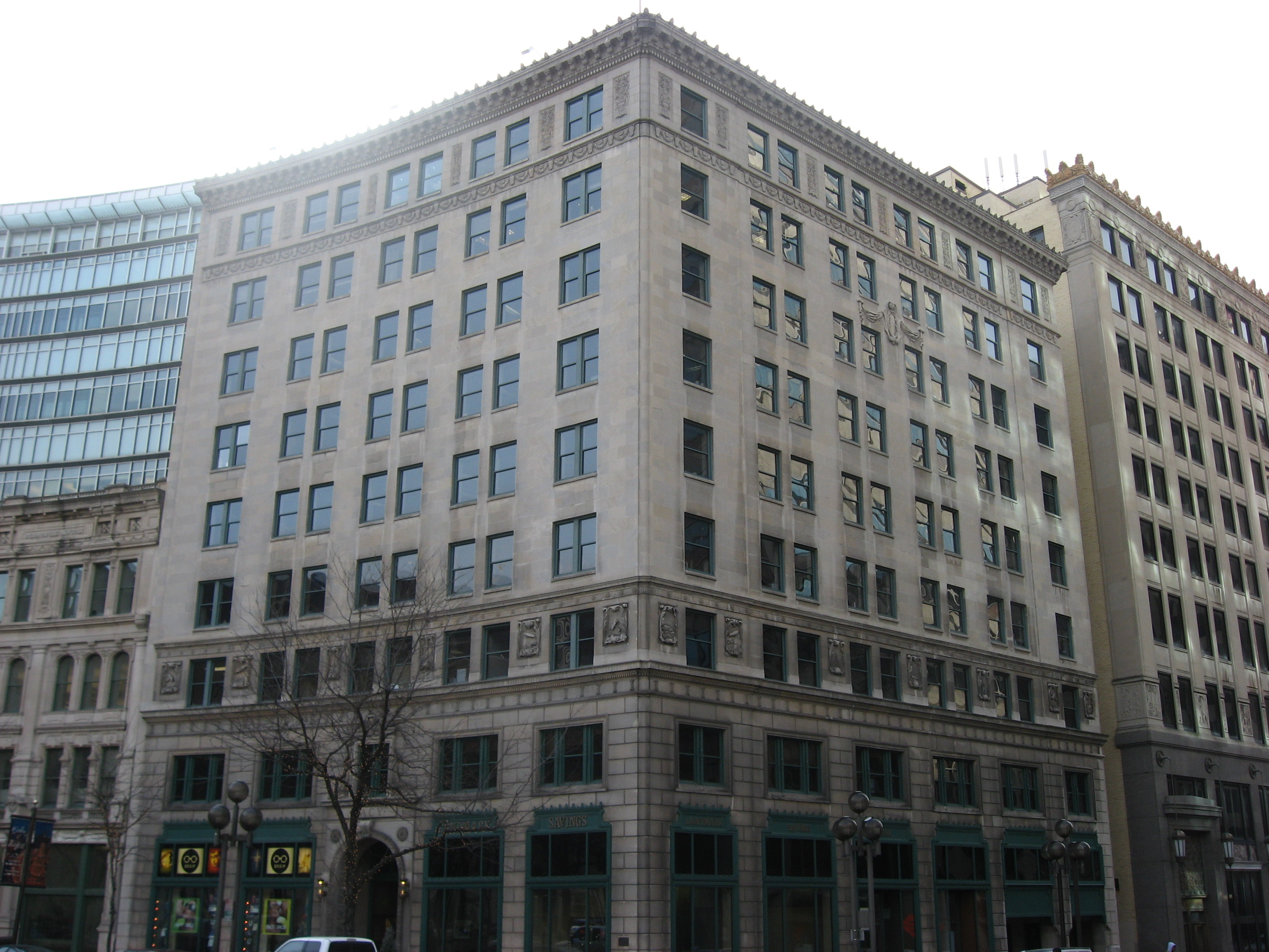 Front of the Test Building, located at 54 Monument Circle in downtown Indianapolis, Indiana, United States. Built in 1925, it is listed on the National Register of Historic Places, and it is a part of the Register-listed Washington Street-Monument Circle Historic District.